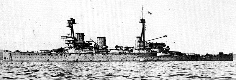 HMS Indomitable